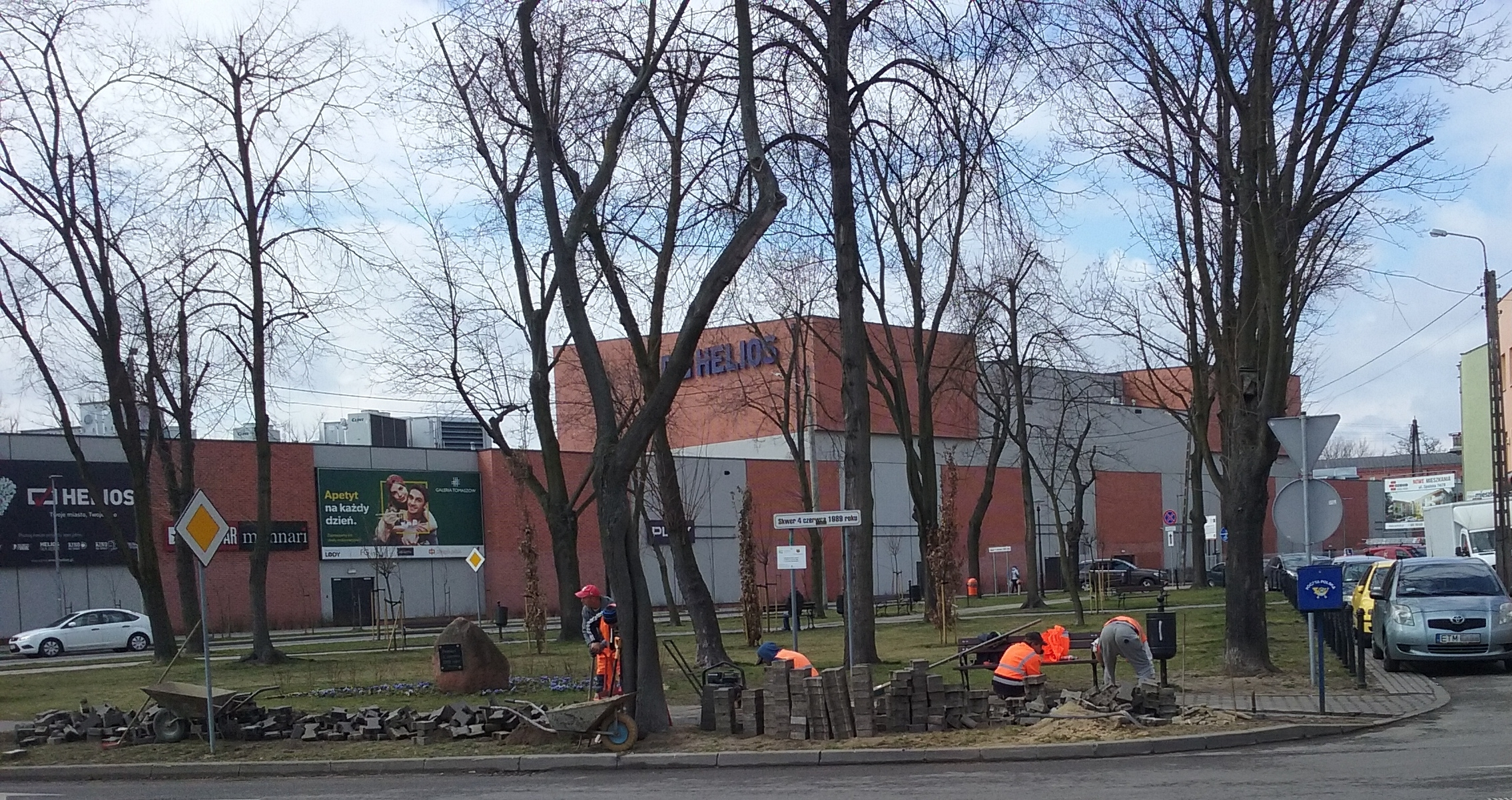 Sidewalk construction at Warszawska Street in Tomaszów Mazowiecki, 2019